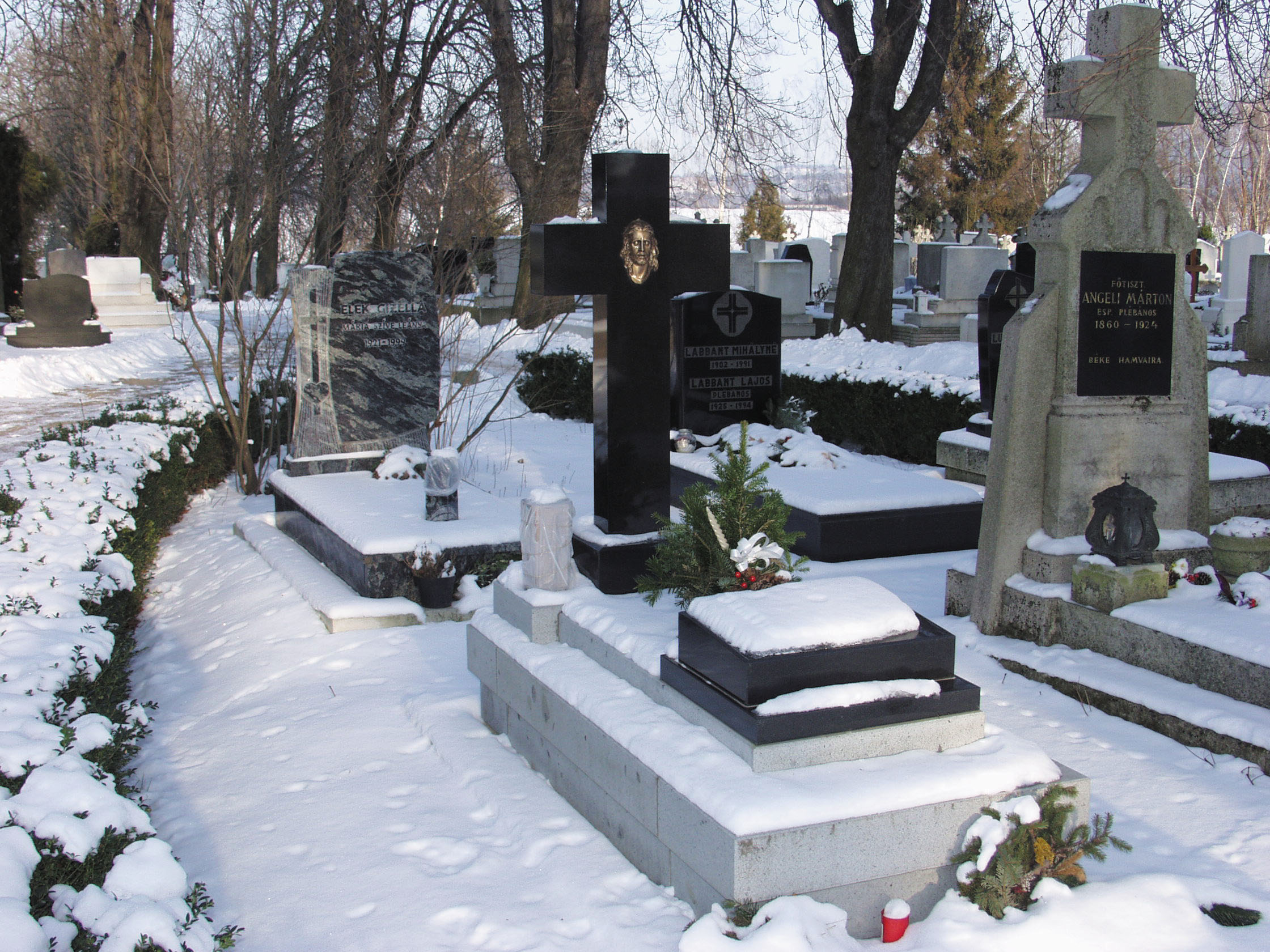 Marlok István apátplébános sírja a pilisvörösvári temetőben